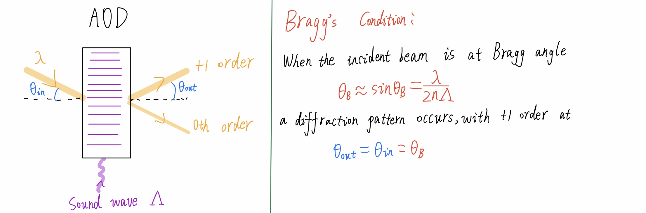 A quick sketch to explain the Bragg Condition of AOM (or AOD). Capital lamda is the wavelength of sound wave, and lowercase lamda is that of light wave.